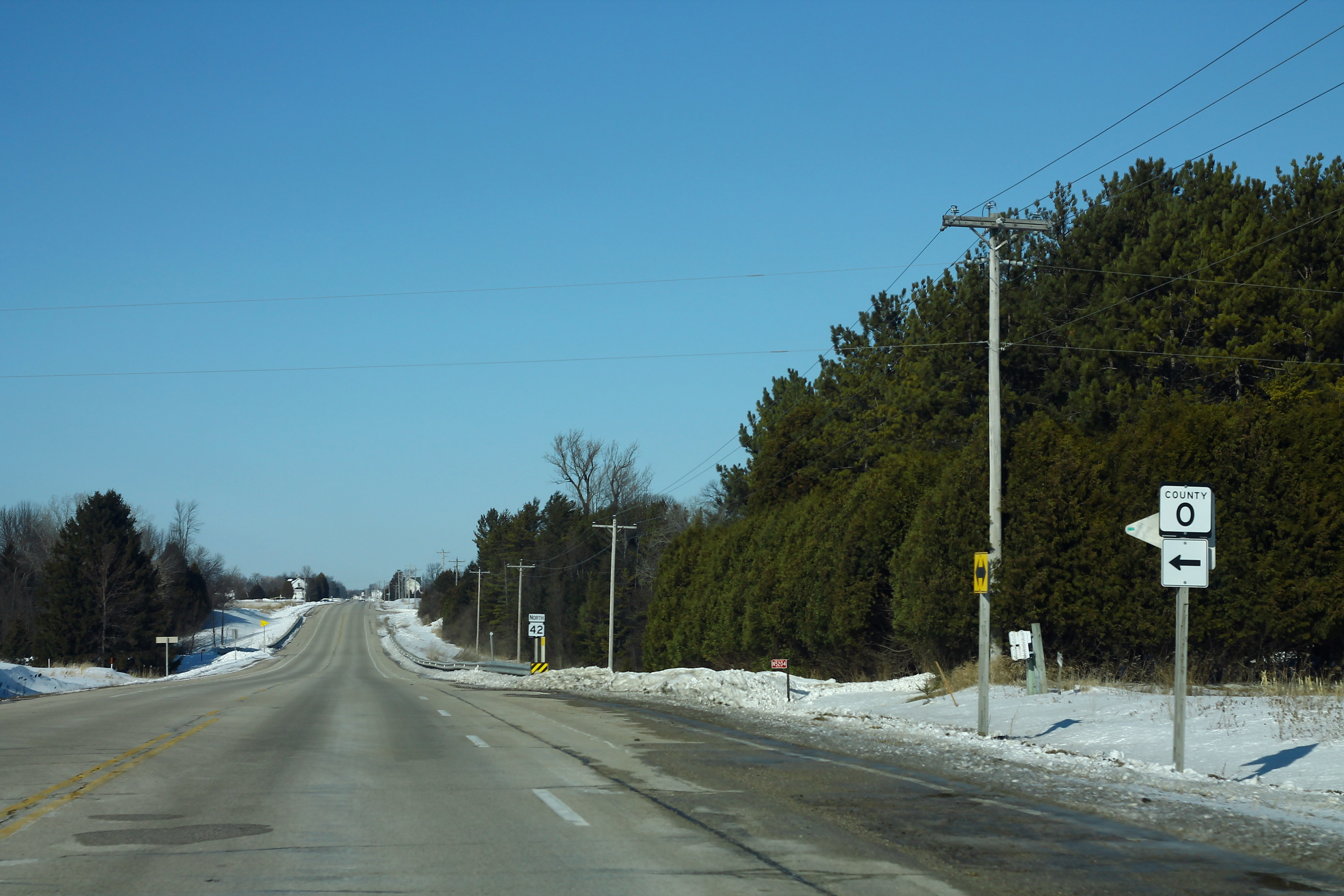 Junction of Wisconsin Highway 42 and County Trunk O in the Town of Pierce, Wisconsin on February 21, 2020